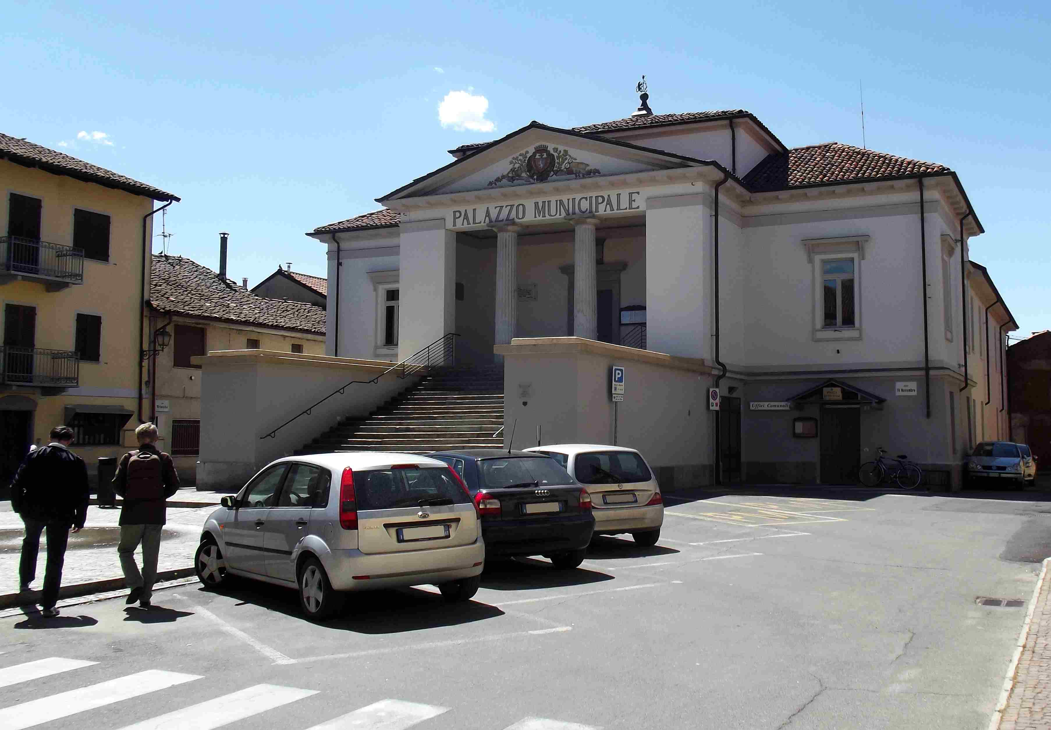 Villanova d'Asti (AT, Italy): town hall